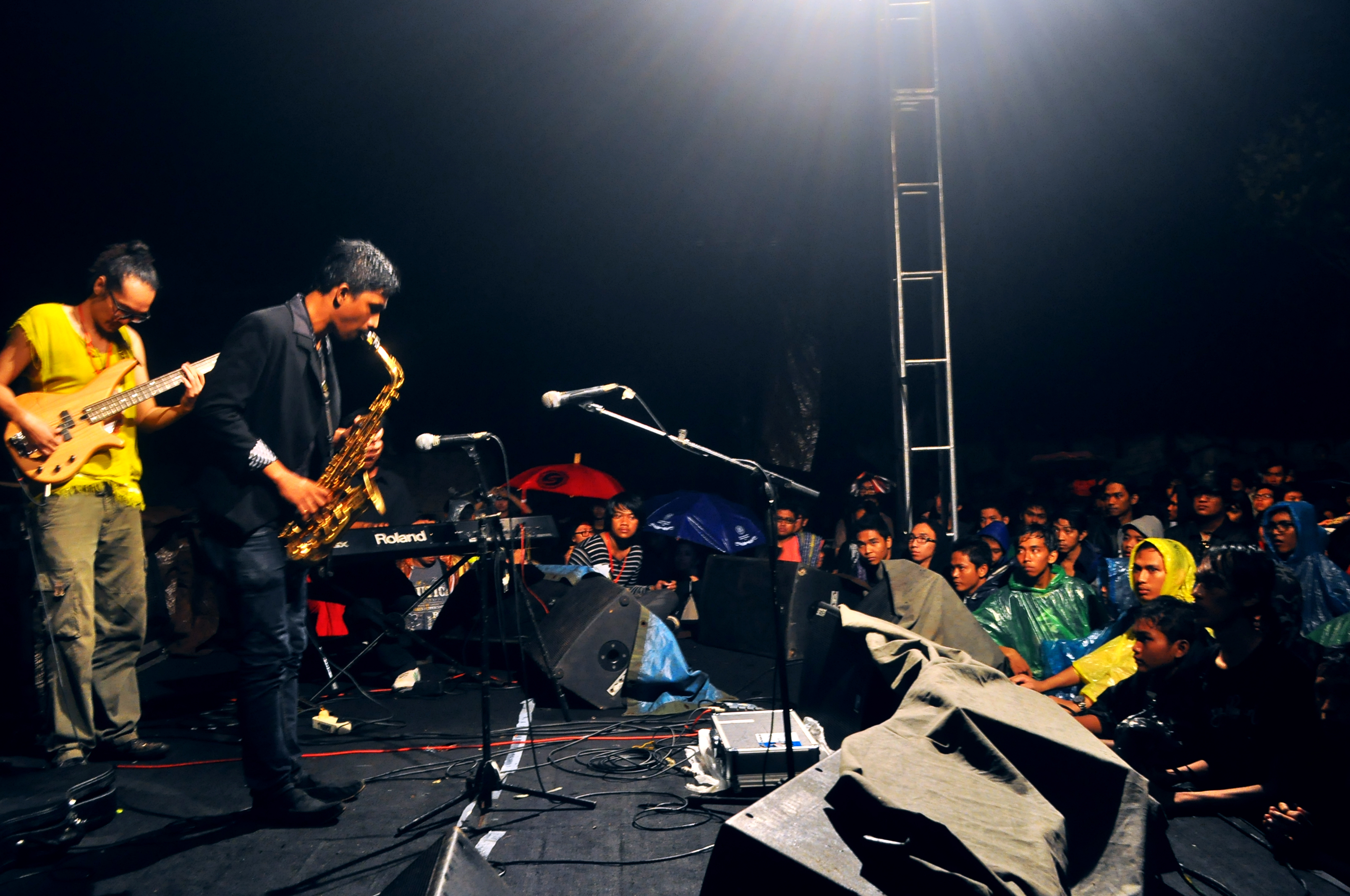 Jazz festival held annually on Yogyakarta, Indonesia. Ngayogjazz 2012 at Brayut Village